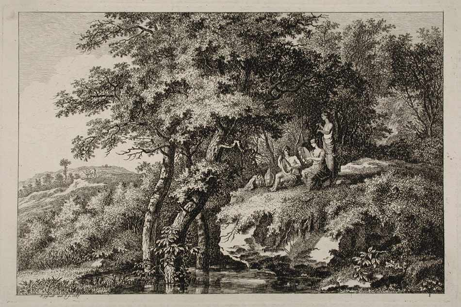 Bucolic scenery (1767) by Salomon Gessner (1730-1788).